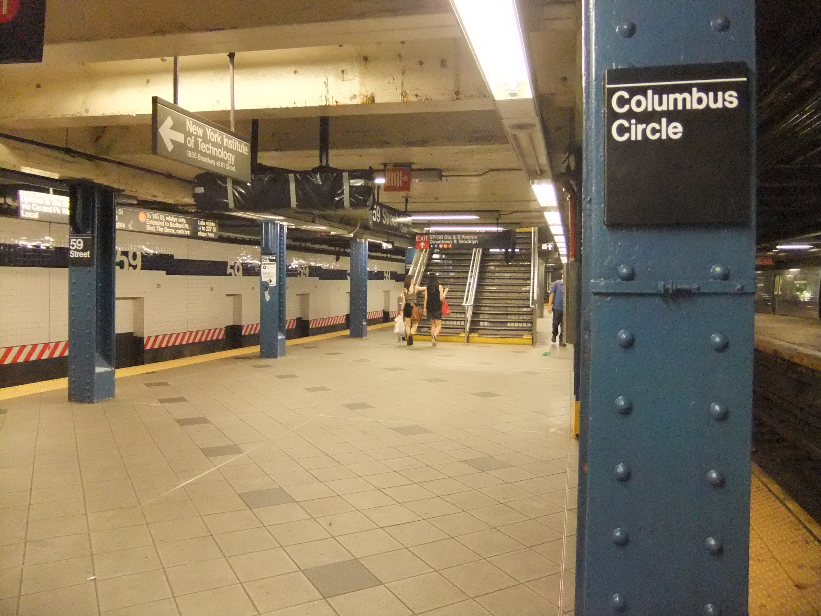 Uptown A/B/C/D platform at 59th Street - Columbus Circle.